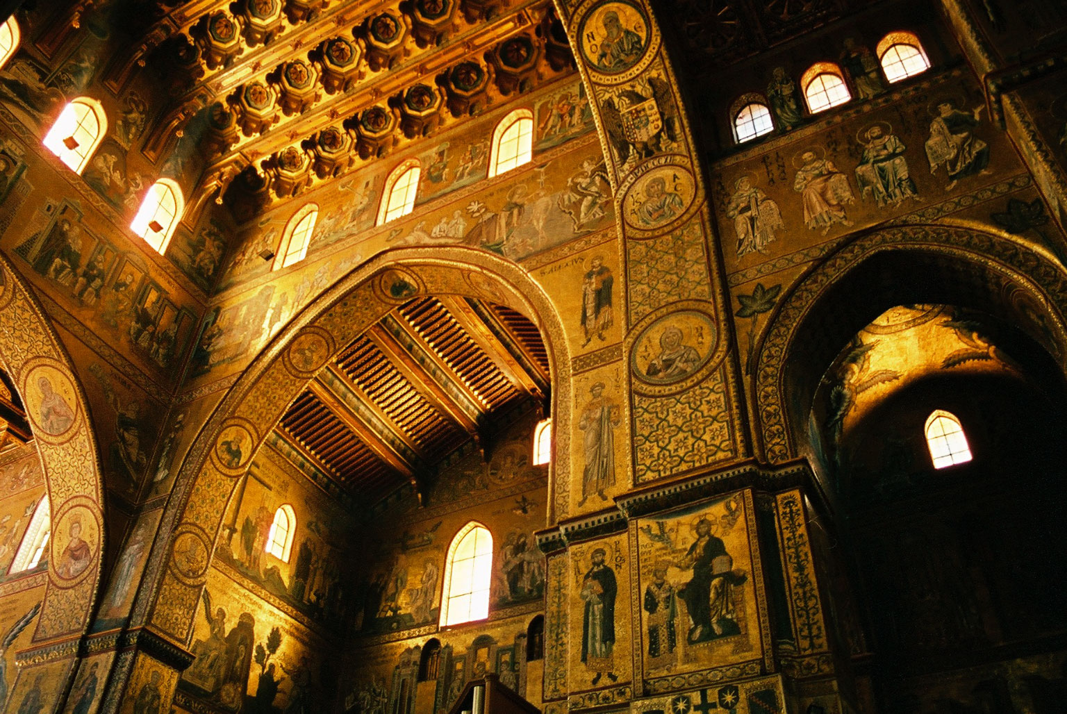 Cathedral of Monreale, Byzantine mosaics covering the interior walls